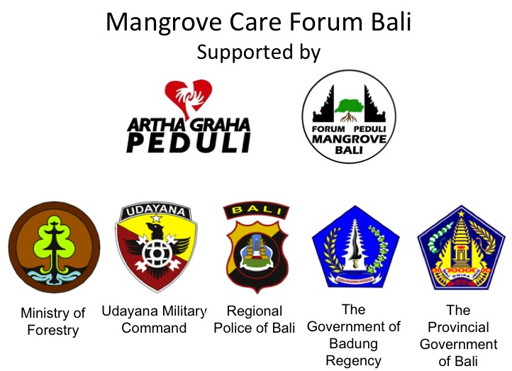 Logos of the supporters for Mangrove Care Forum Bali